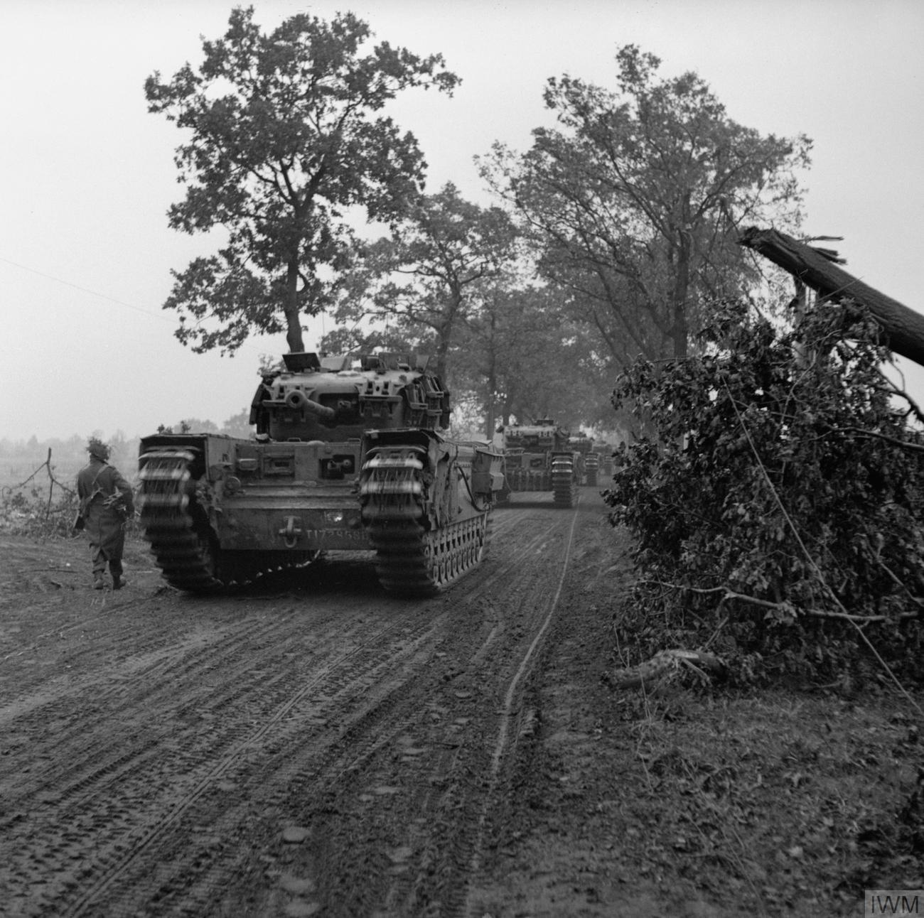 British Tanks in Nw Europe 1944-45 Churchill tanks of 6th Guards Tank Brigade with infantry of the 6th Gordon Highlanders, 15th (Scottish) Division, in the Netherlands, 2 November 1944.